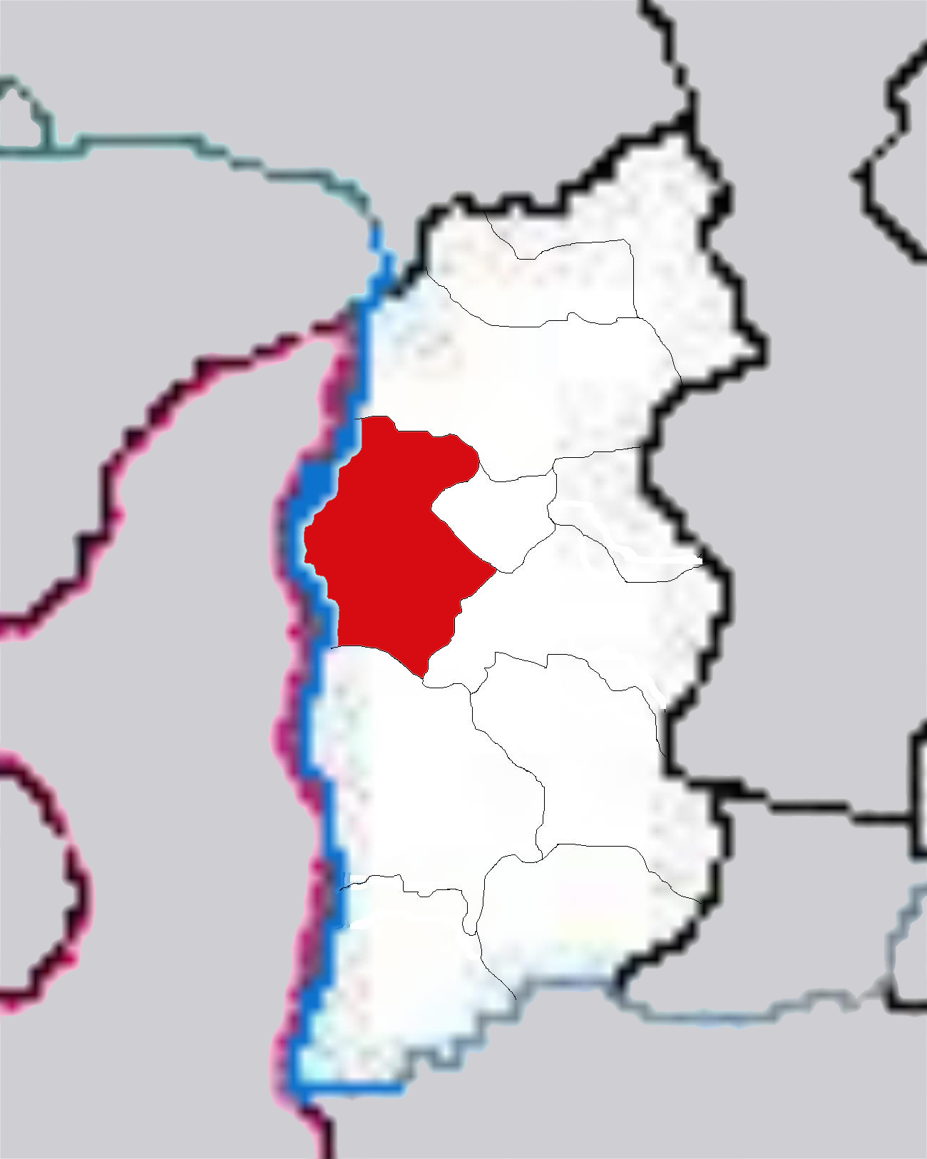 Maps of Shanxi Province of China